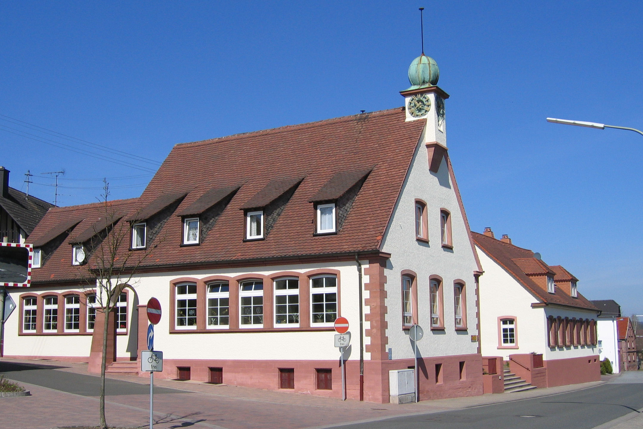 view of Mehlingen, Germany